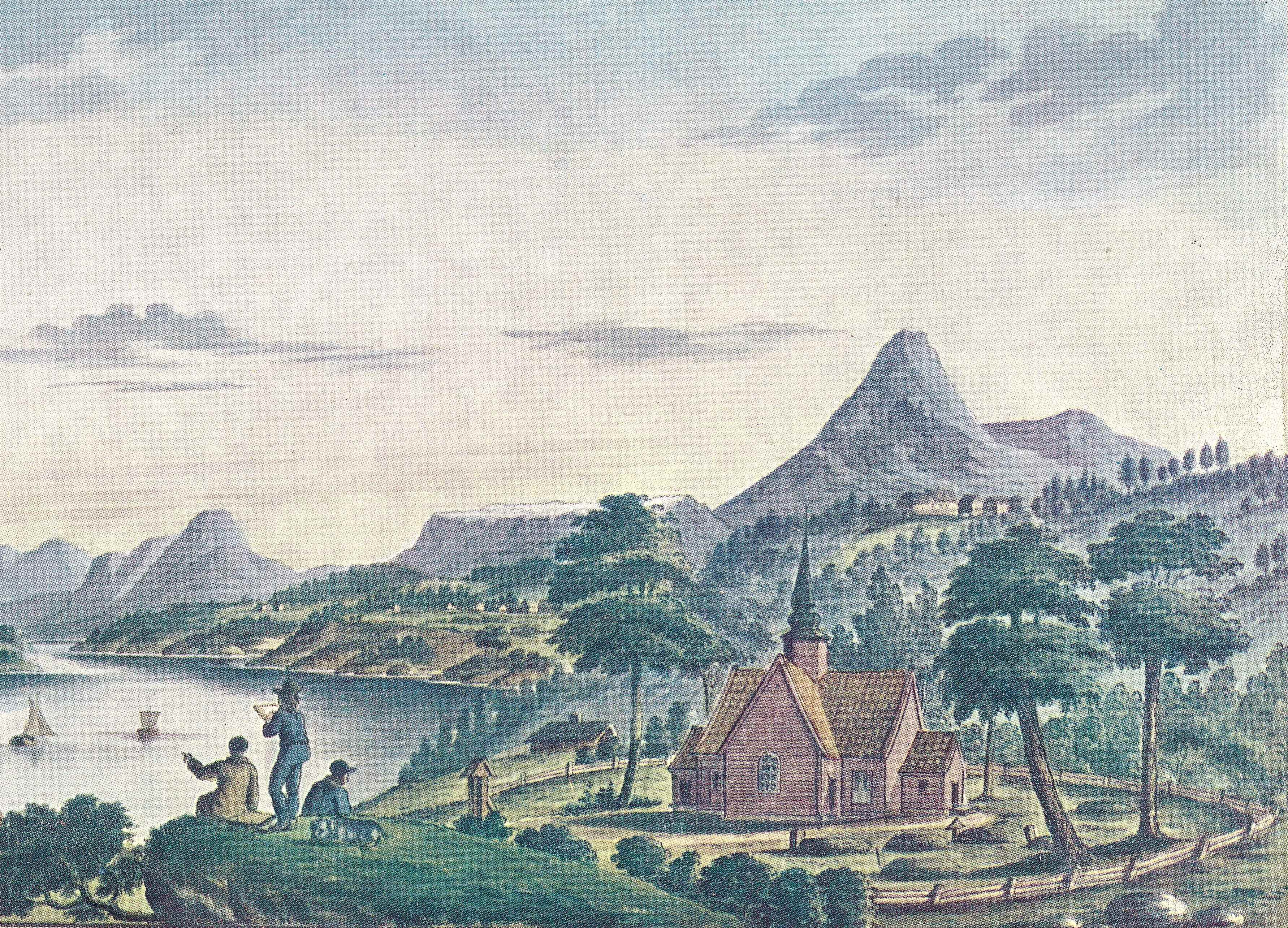 J.F.L. Dreier (1775-1833): View from Stranda towards Tafjord. Cropped 1827 original.